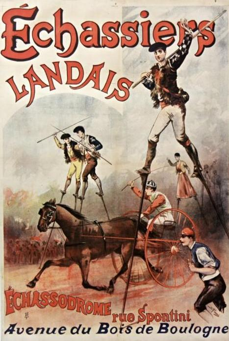 Poster announcing a show by the "Chancaires lanusquets"